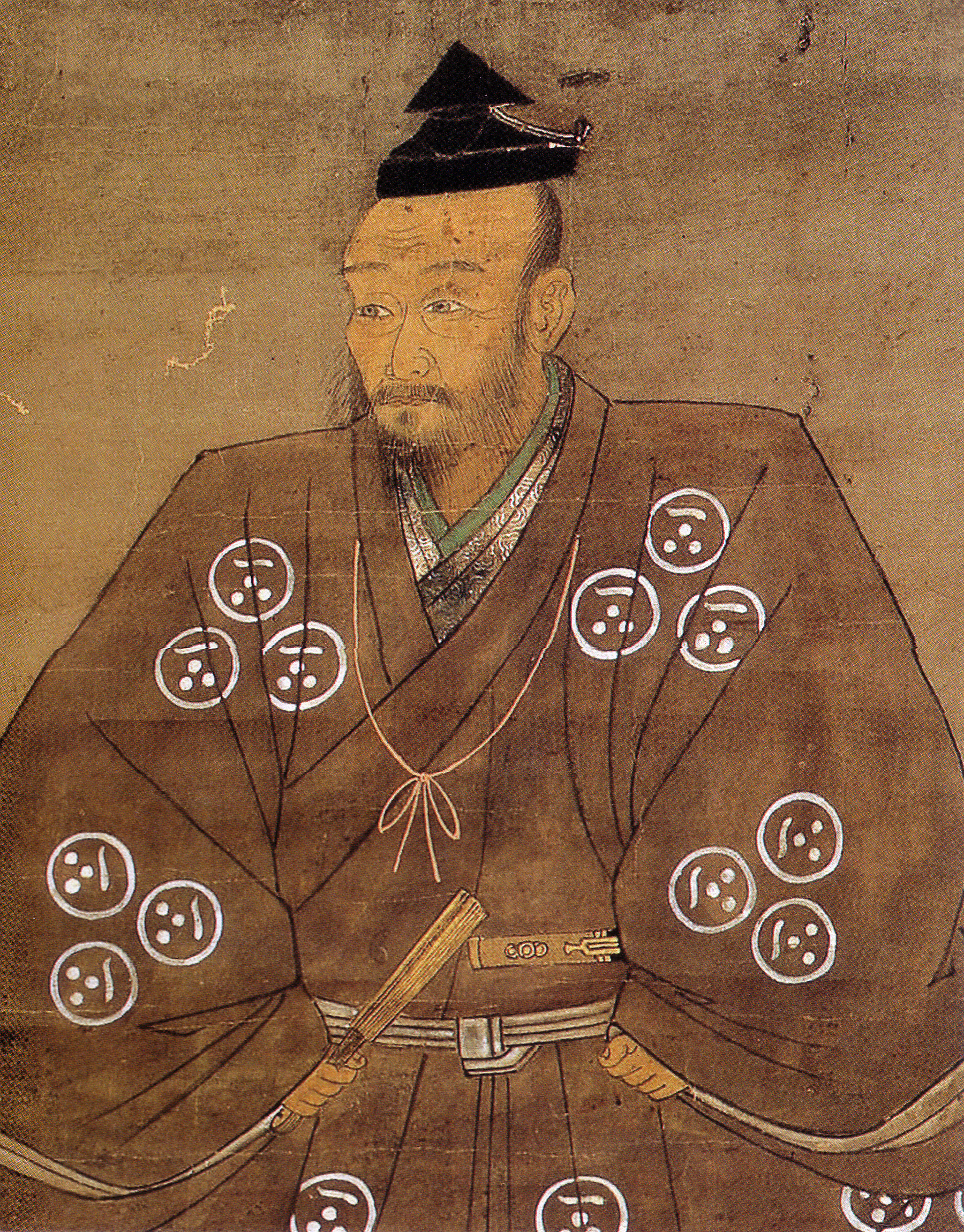 Mori Motonari